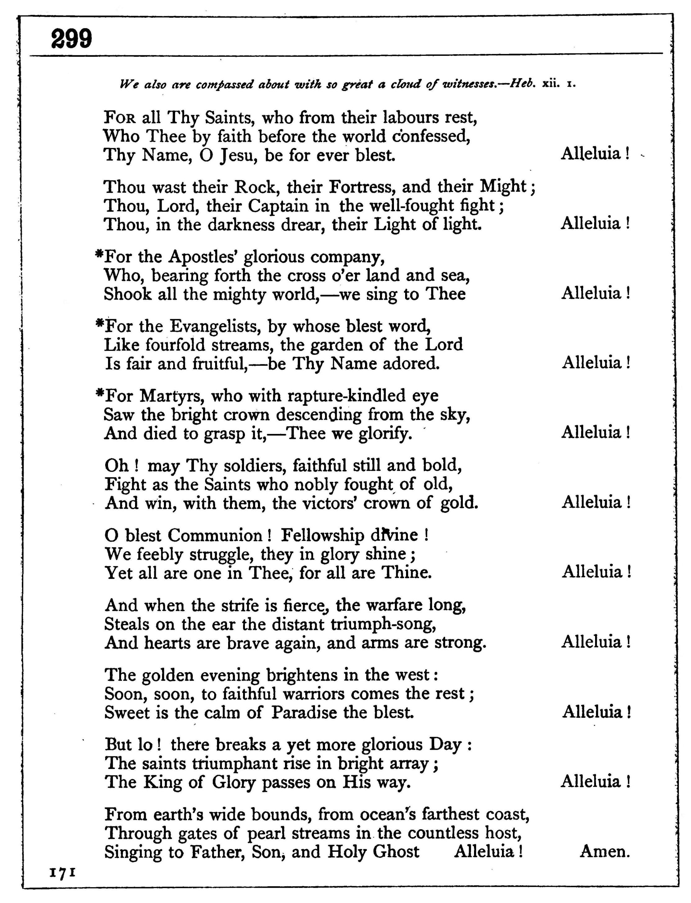 William Walsham How: For all Thy Saints, from Sarum Hymnal 1868